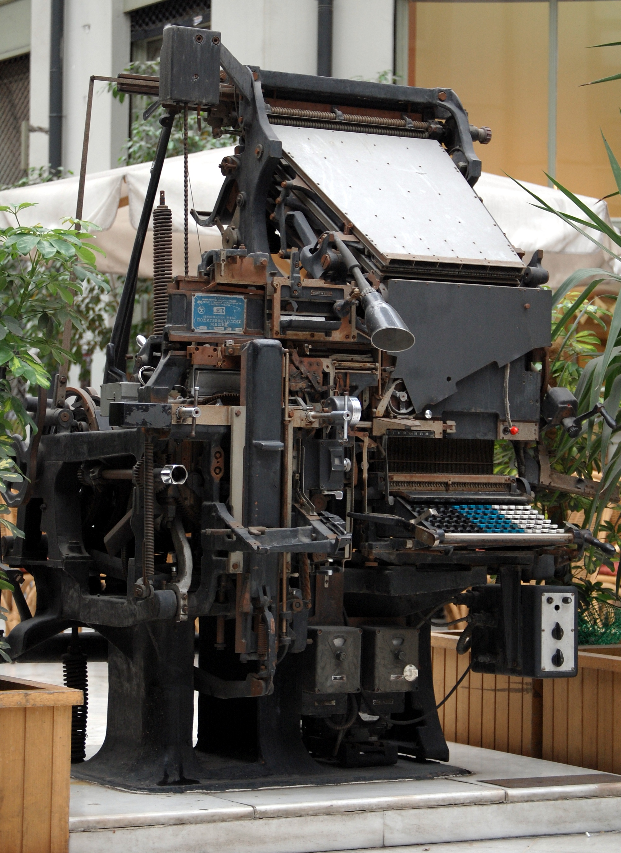 A linotype machine on display at Arsaki galley, Athens. Made in USSR 1974 by the ЛЕНИНГРАДСКИЙ works. Front view.